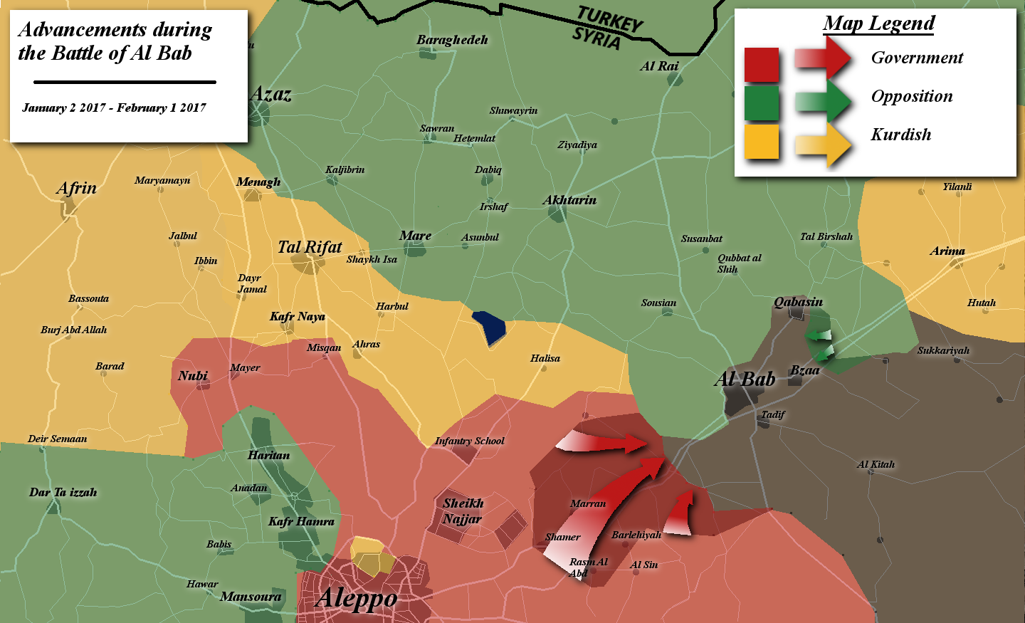 A simplified map of the advancements during the battle of Al Bab. Created in gimp 2.8. Influenced by many maps from creators: MrPenguin20, PetoLucem, Edmaps Syria, and so on.